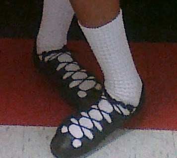 Irish dance soft or ghillie (or gillie) shoes on dancer with poodle socks.